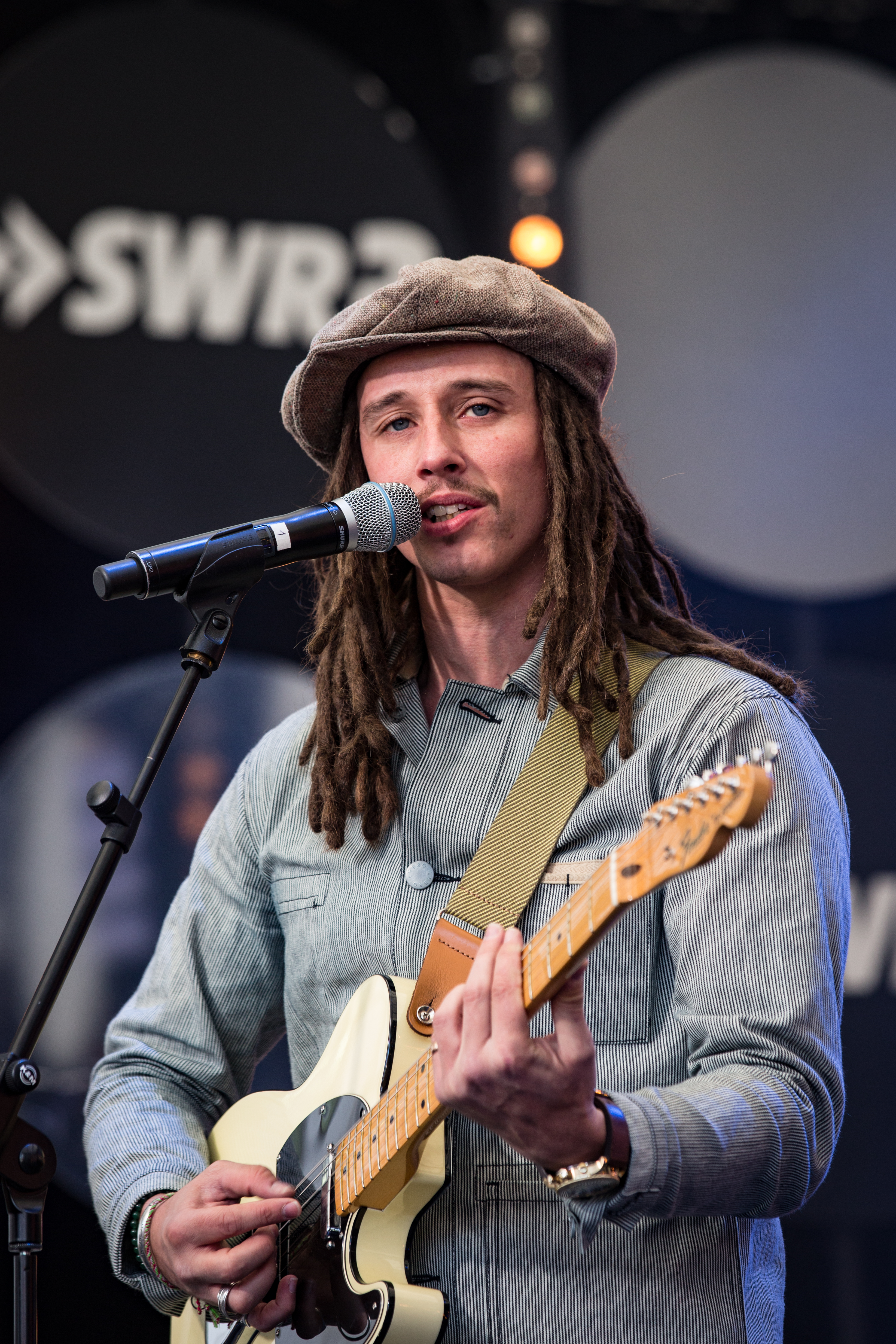 Singer-songwriter JP Cooper at the SWR3 New Pop Festival 2017